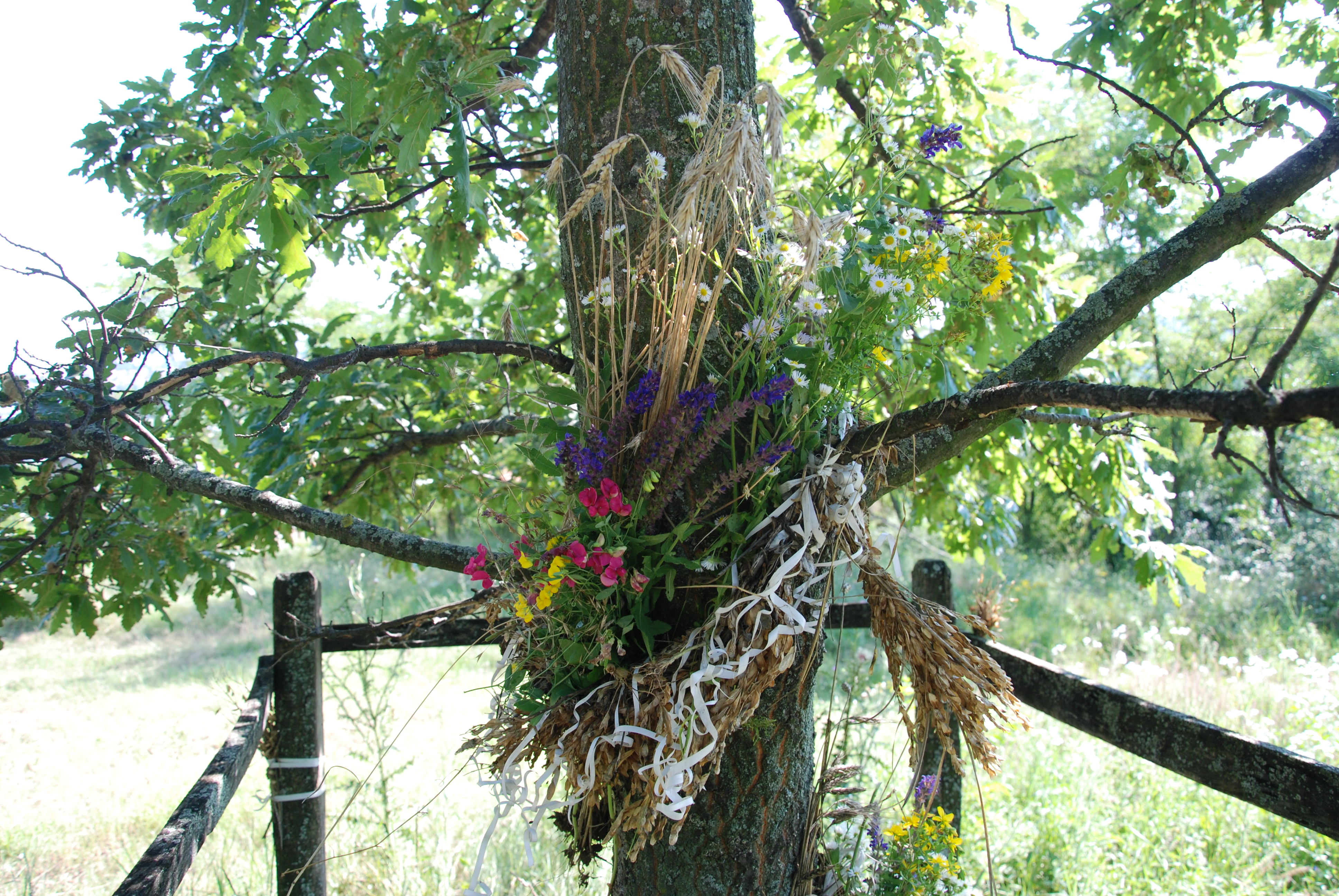 Zapis - Sacred Tree, Оак in village Petrovac, municipality Kragujevac IV, Serbia